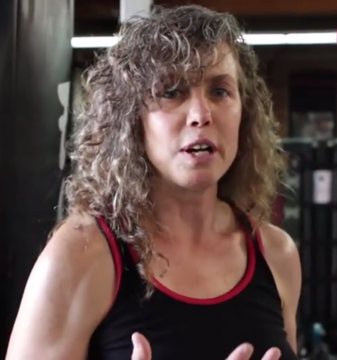 American actress and five-time Muay Thai Kickboxing World Champion, Kathy Long.